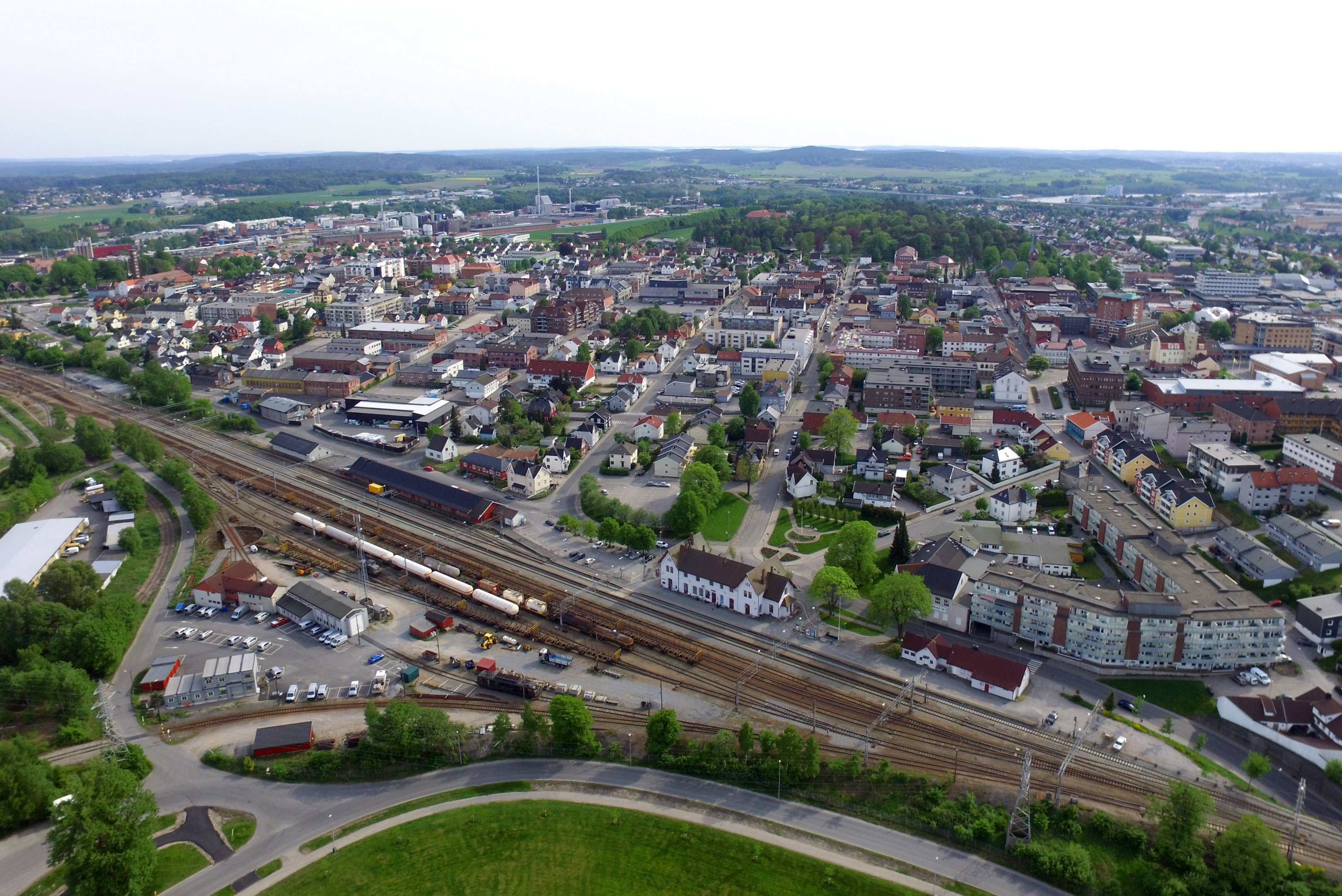 Centre of Sarpsborg photographed from drone overflying Glengshølen